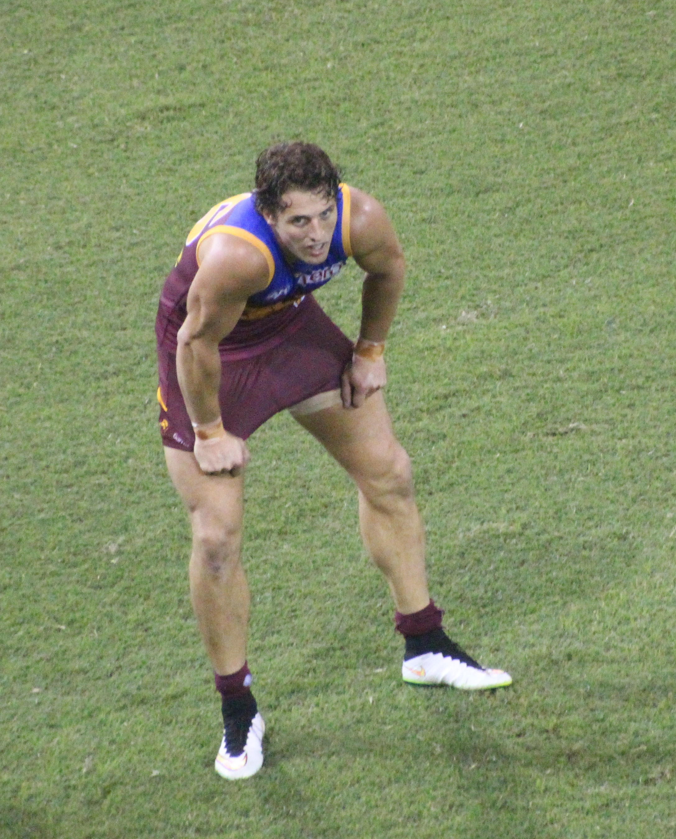 Matt Maguire at a game against Richmond on 18 April 2015.